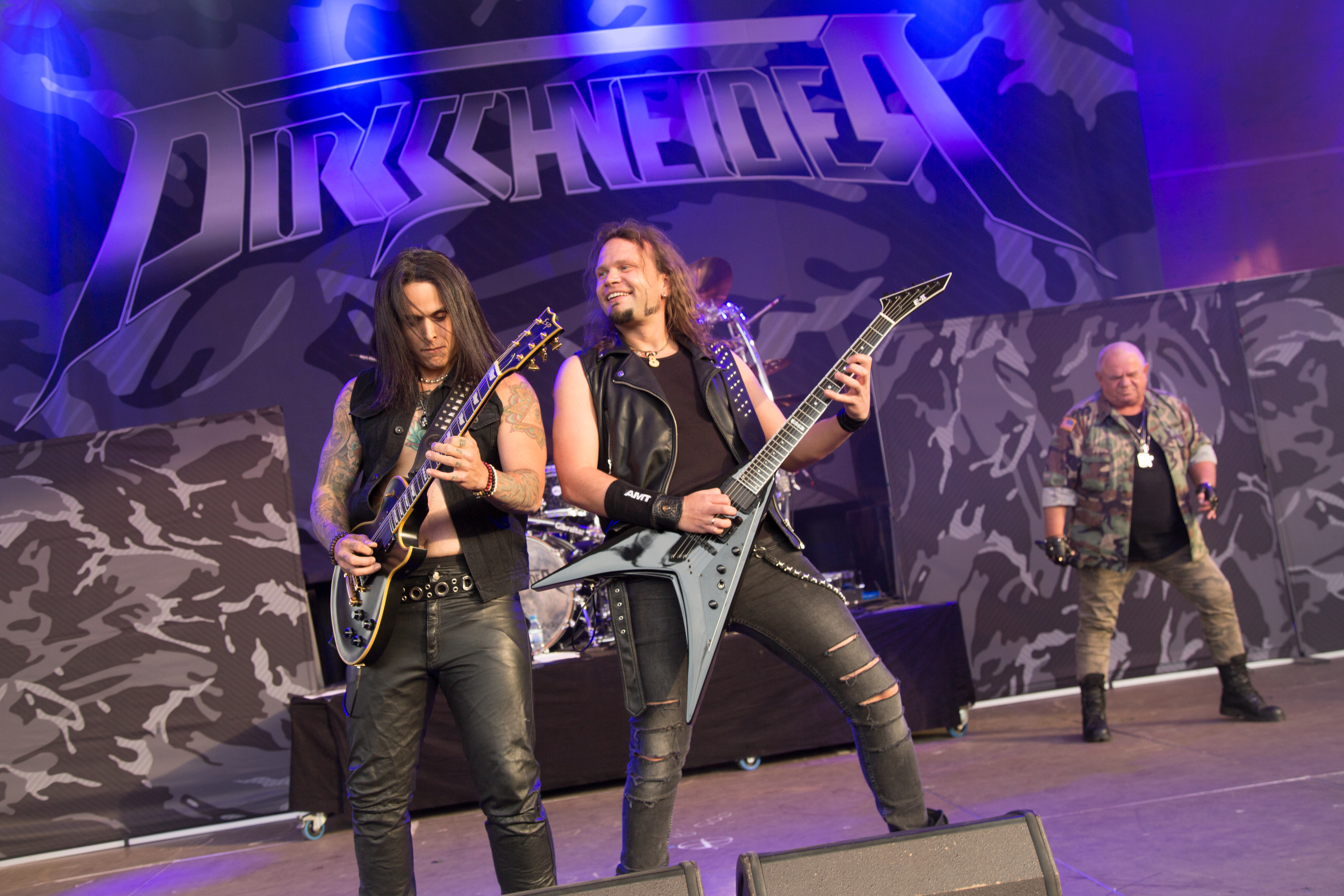 Dirkschneider performing live at Rock Hard Festival 2017, Gelsenkirchen, Germany